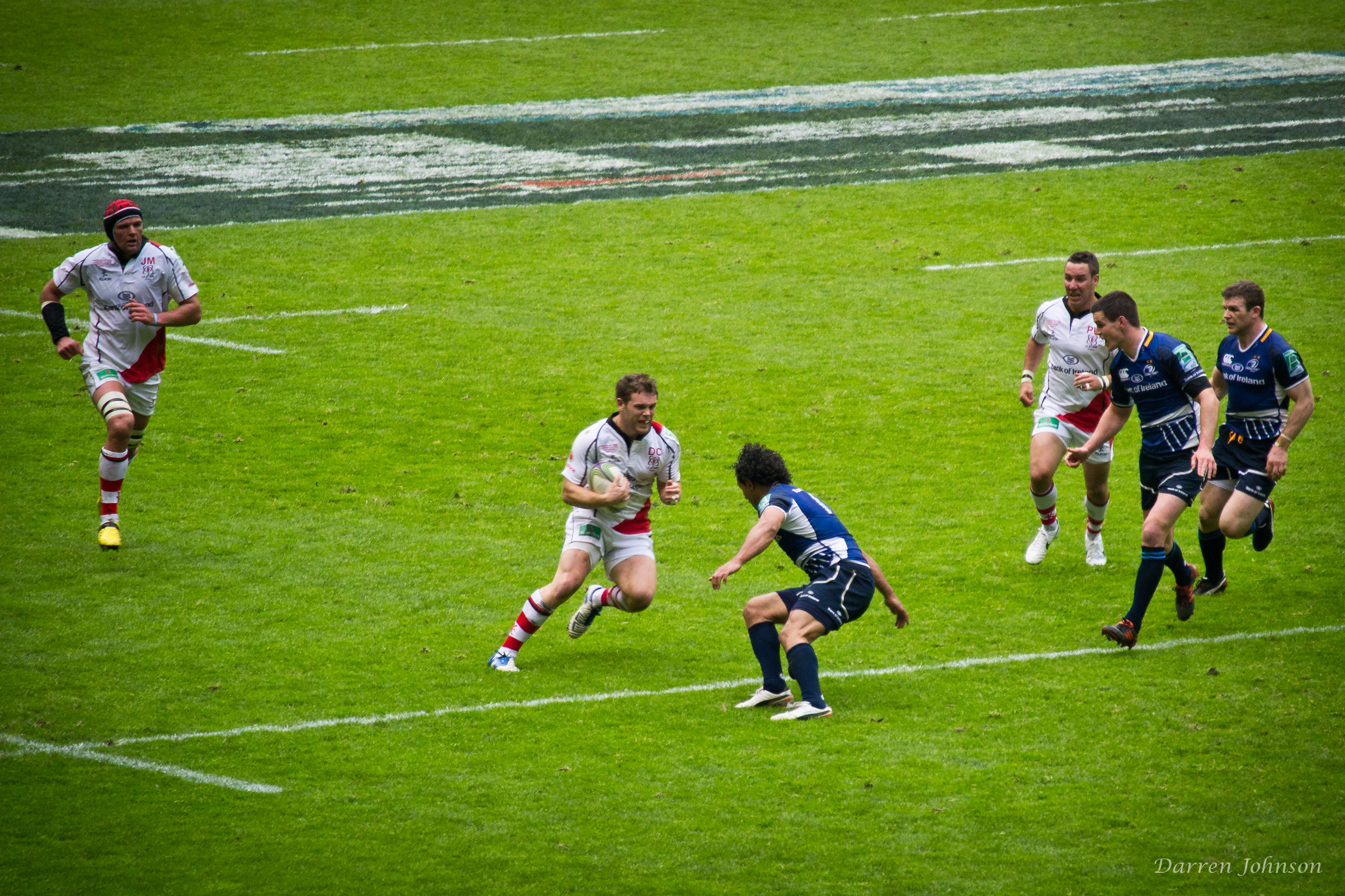 Taken at the Heineken Cup Final 2012